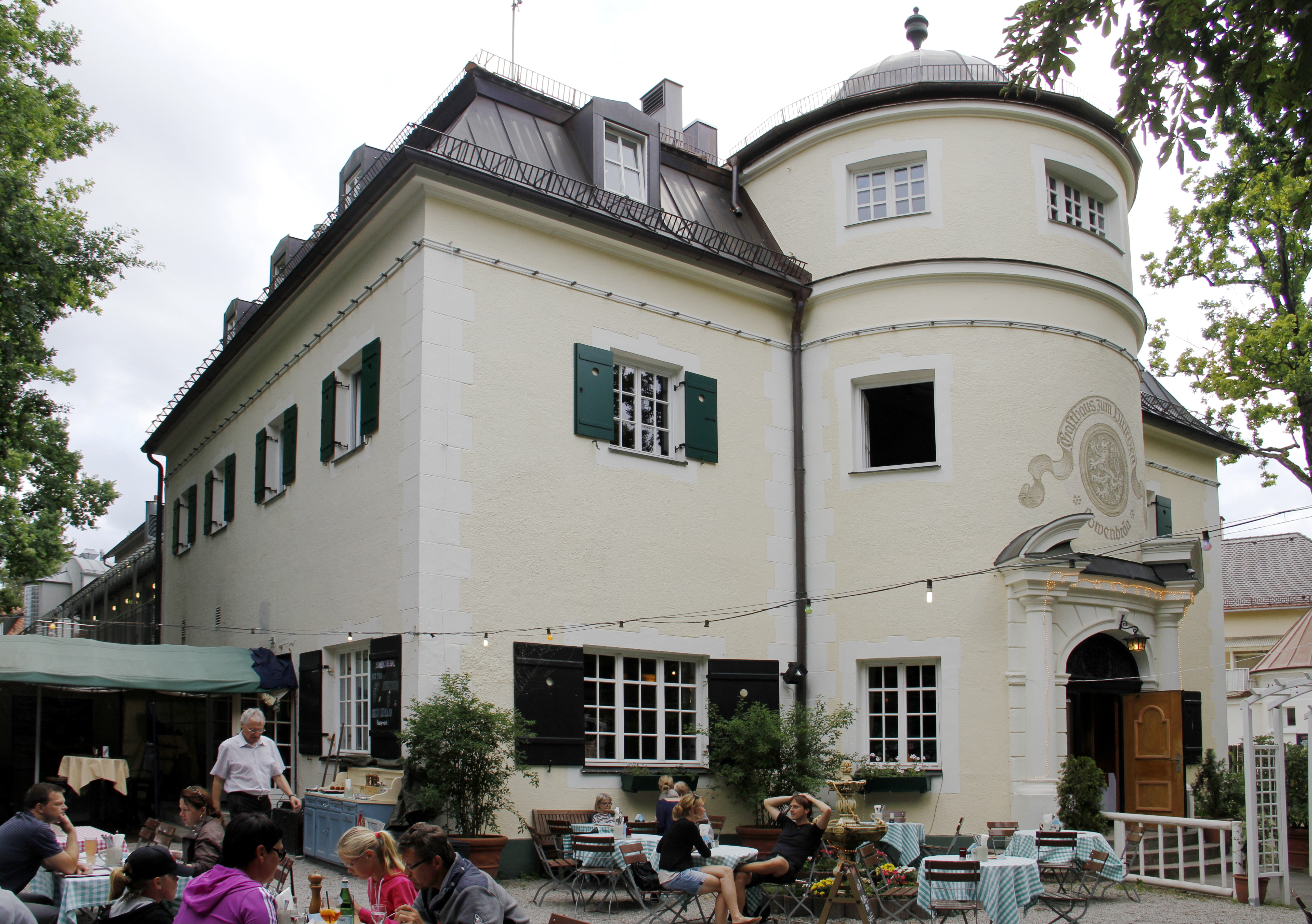 Inn "Gasthaus zum Hirschen" in Solln, Munich, Germany. Built 1901 by Gustav Schellenberger.